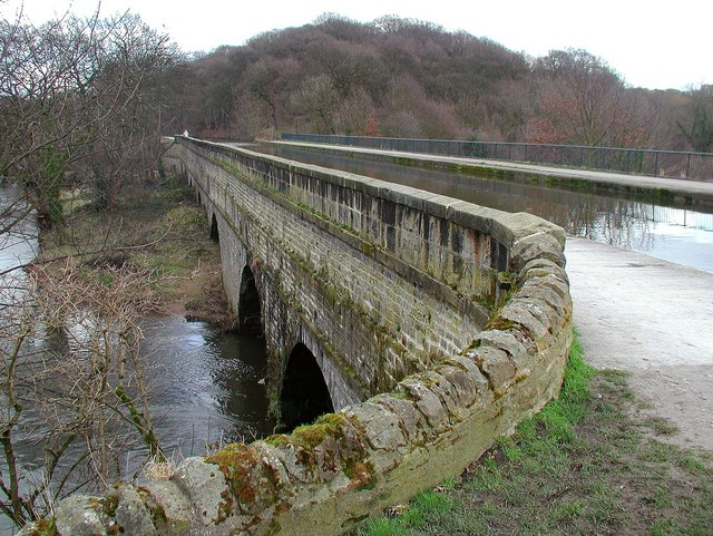 Dowley Gap Aqueduct Aqueduct across the River Aire on the Leeds & Liverpool Canal halfway between Bingley and Saltaire, looking east towards Hirst Wood.